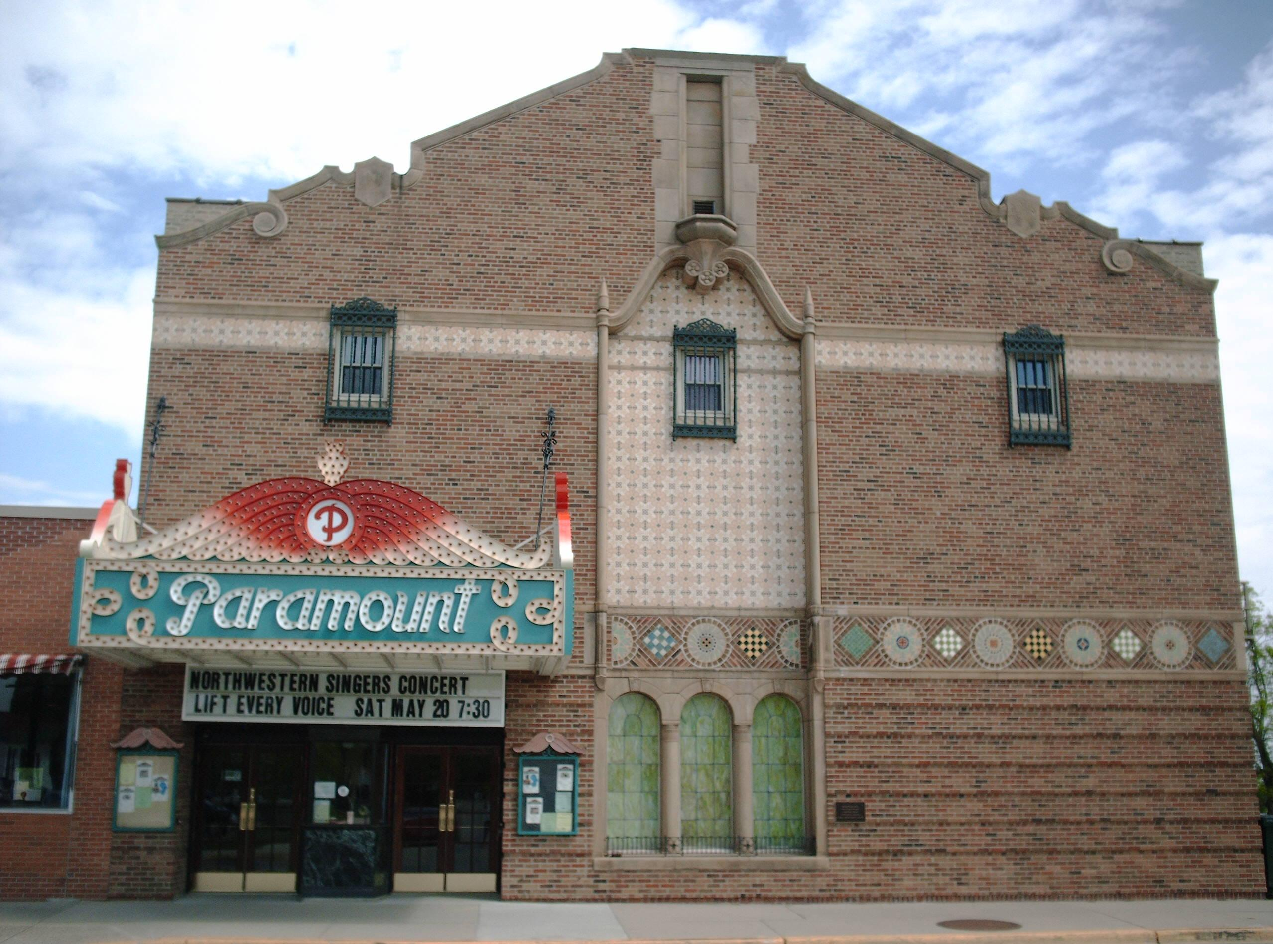 Paramount Theatre, Austin, Minnesota, United States